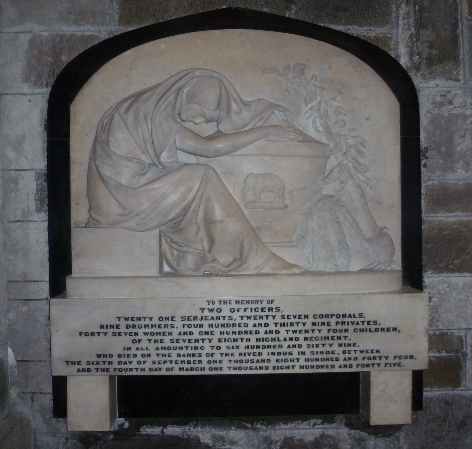 78th Highland Regiment Sindh memorial, St. Giles, Edinburgh